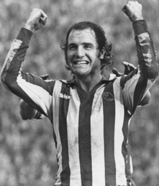 The footballer Andy McCulloch playing for Sheffield Wednesday F.C.